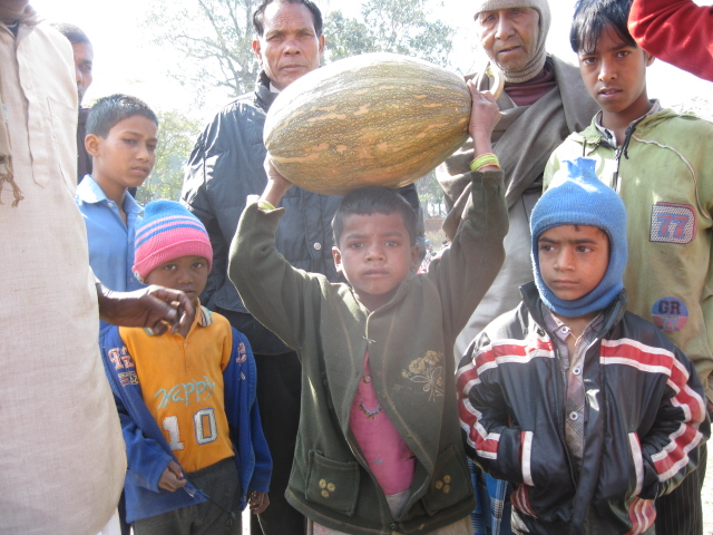 Display during a get together of Farmers' clubs